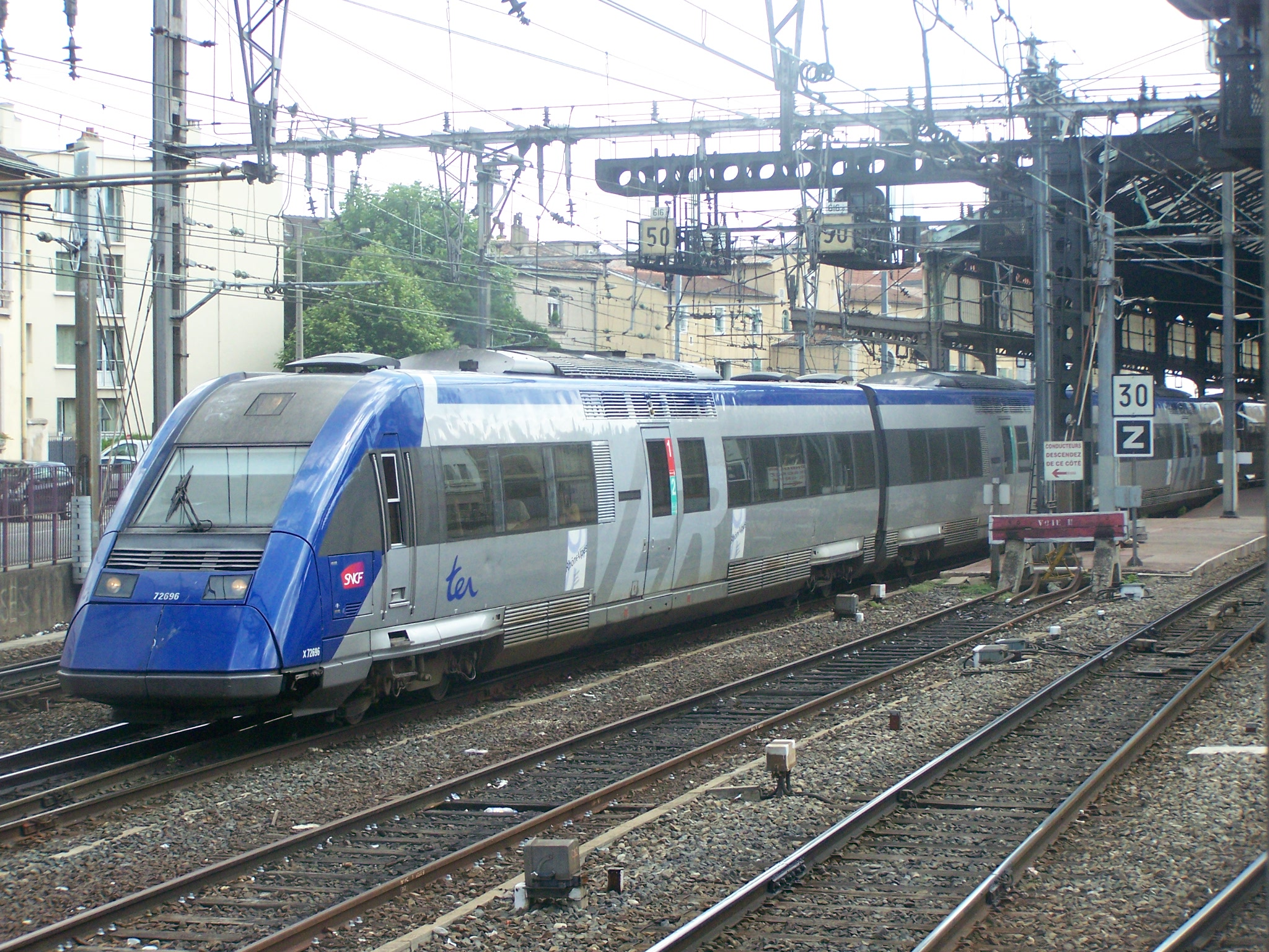 A French regional train is leaving the station of Valence-Ville and carries passengers to Annecy (first carriage) and Geneva (Switzerland) (second one).